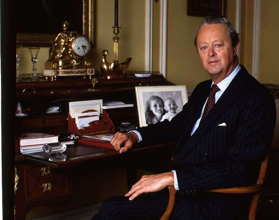 portrait